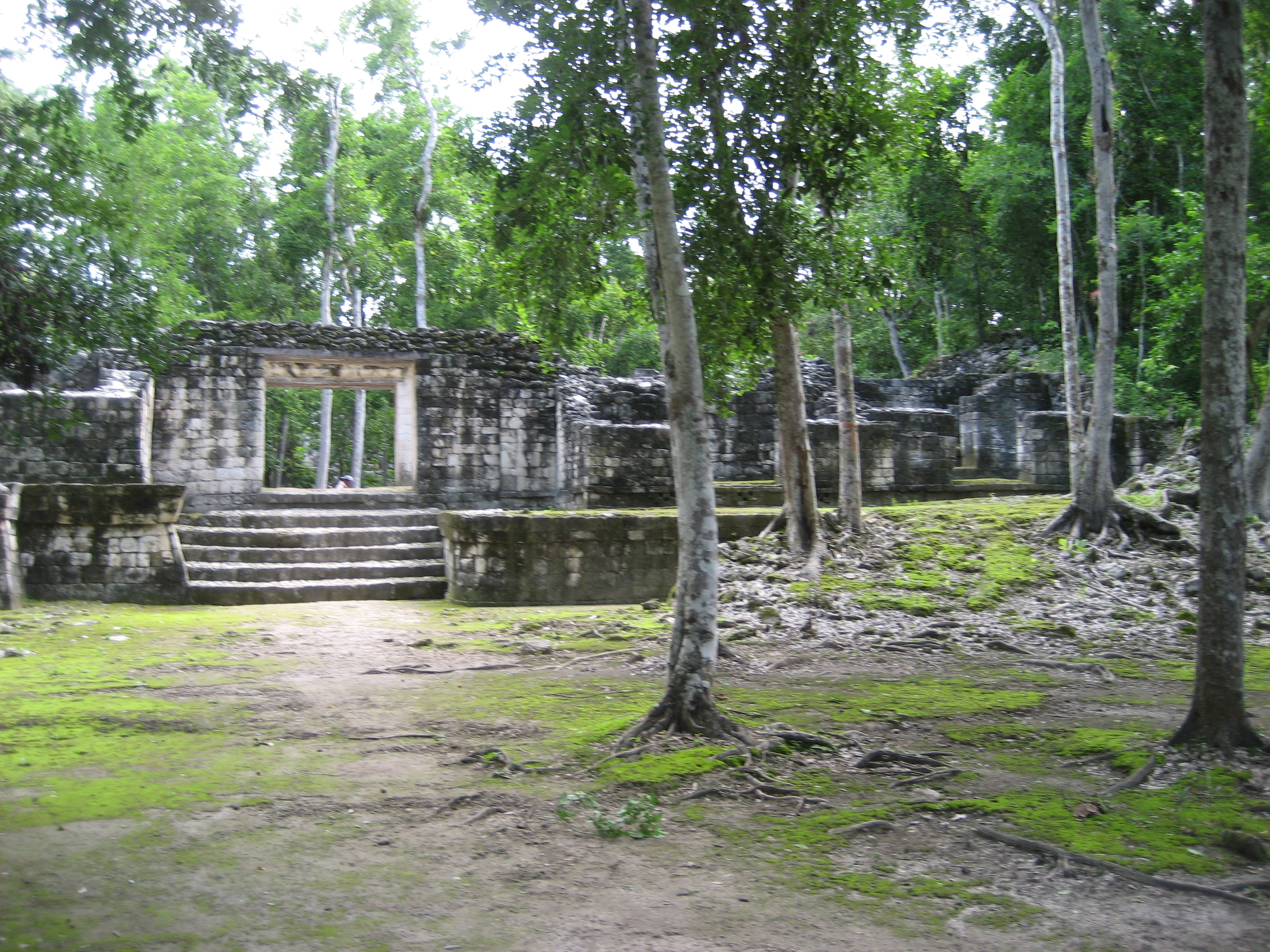 South Group, Balamku, Campeche, Mexico